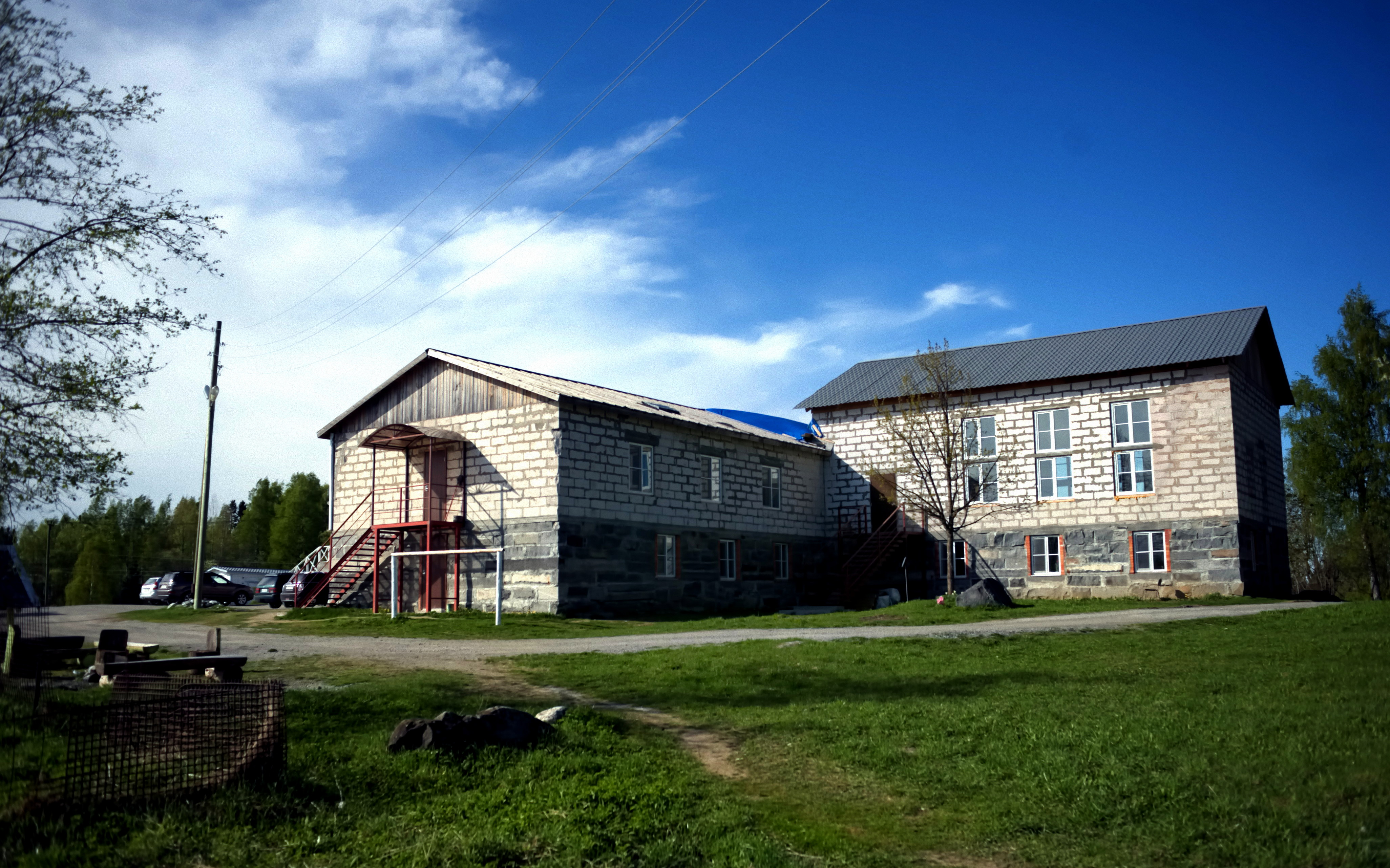 Ruskeala Church 2016